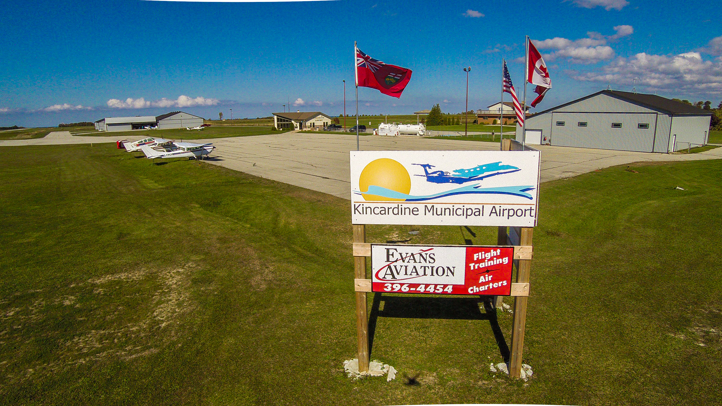 Aerial photo of runways, ramps, taxiways, apron, hangars and terminal building at CYKM.